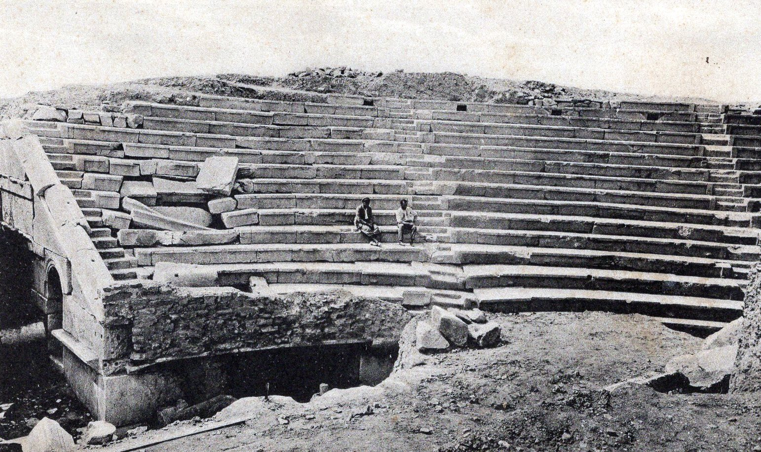 Postcard of Stobi, The Theater, 1933 This media file is produced by Wikipedian in Residence in Category:Wikipedian in Residence at DARM in 2016.